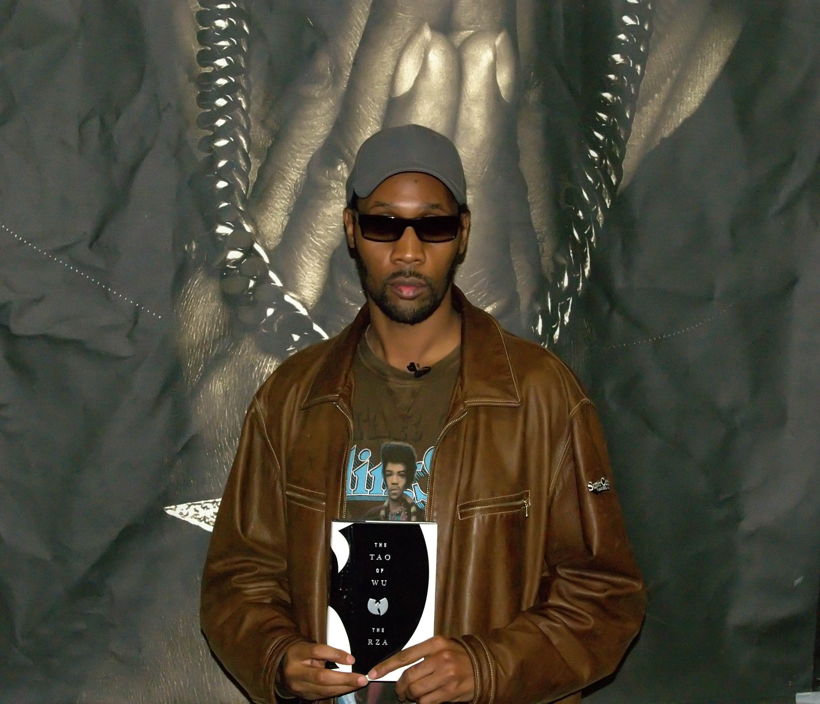 Wu Tang Clan co-founder RZA in New York City's Union Square Barnes & Noble to read from The Tao of Wu, a book about the philosophy behind the Wu Tang Clan.